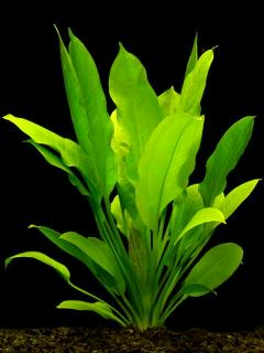 Echinodorus bleheri (Amazon sword plant, although other plants are also known under this common name). The plant is cultivated for and used in freshwater aquariums. The species is native to the Amazon Basin.